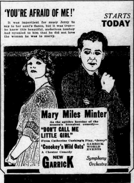 Newspaper advertisement for the American comedy film Don't Call Me Little Girl (1921) with Mary Miles Minter, on page 12 of the may 26, 1921 Duluth Herald.